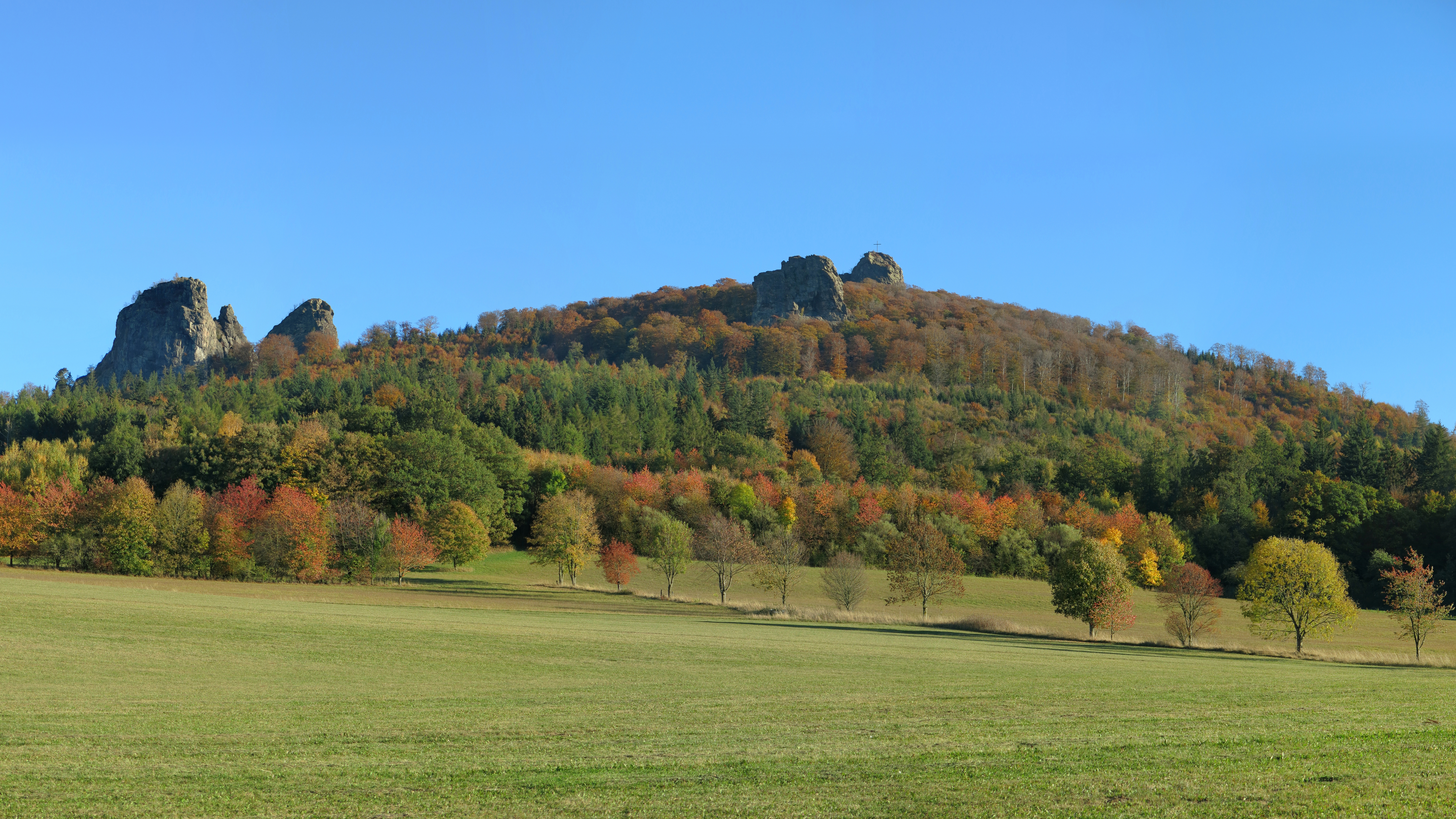 The rock formation Bruchhauser Steine in the Sauerland seen from northwest